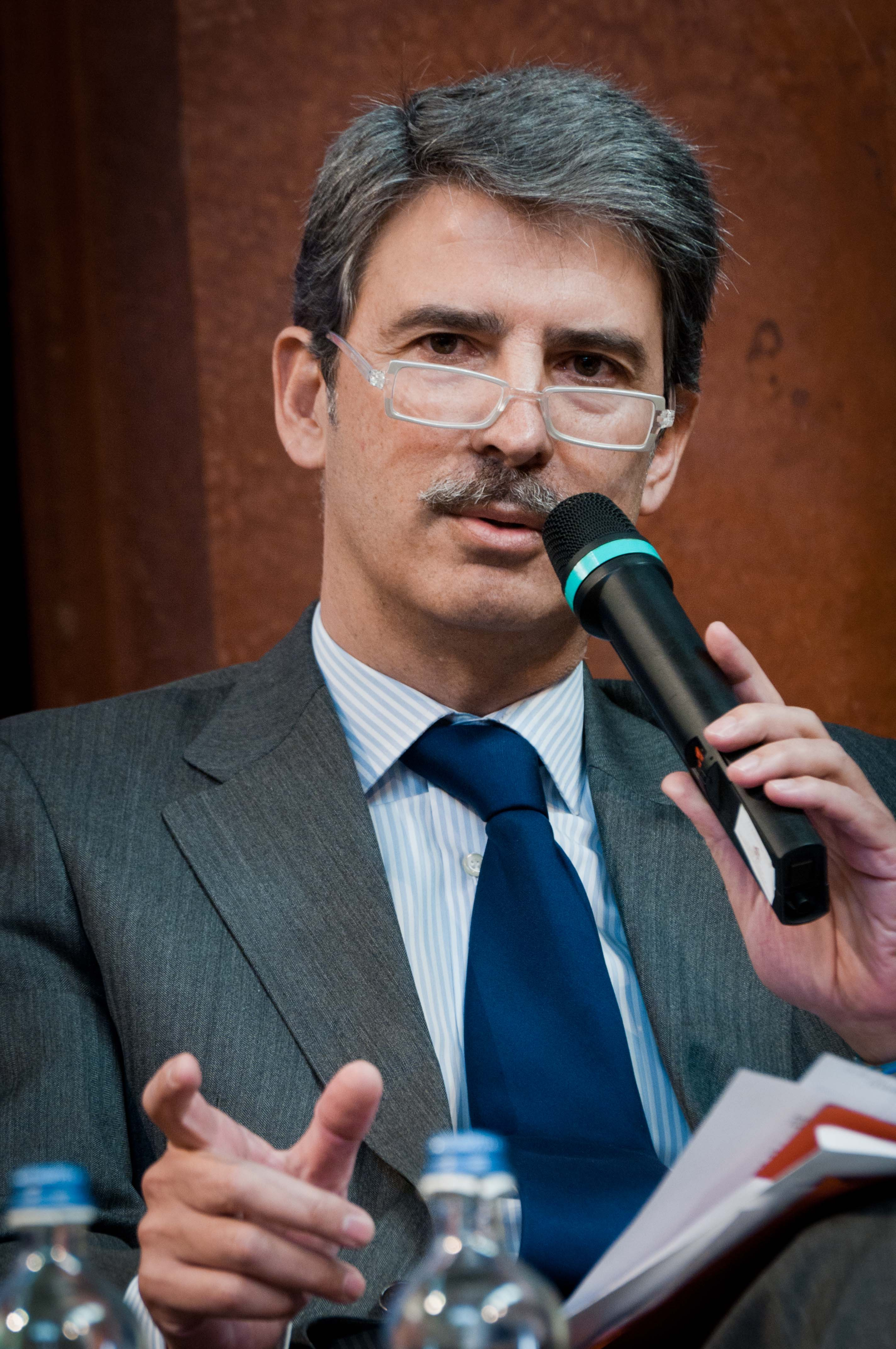 MEP, Co-President of the Euro-Latin America Parliamentary Assembly, Speaker of the European Peoples Party Group in the Committee on Foreign Affairs of the European Parliament and Rapporteur of the European Parliament